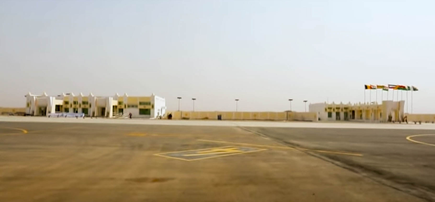 Aéroport International de Zinder